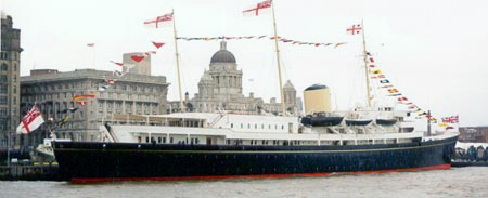 The Her Majesty Yacht Britannia